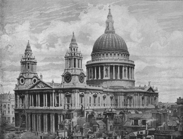 St Paul's from the south west in 1896.